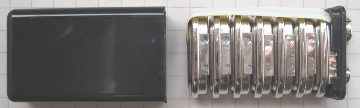 A dissected NiMH 9-Volt (PP3, 7HR22) battery. Showing the seven individual 1.2V cells of its construction. Each cell is a 180mAh Varta V180H.